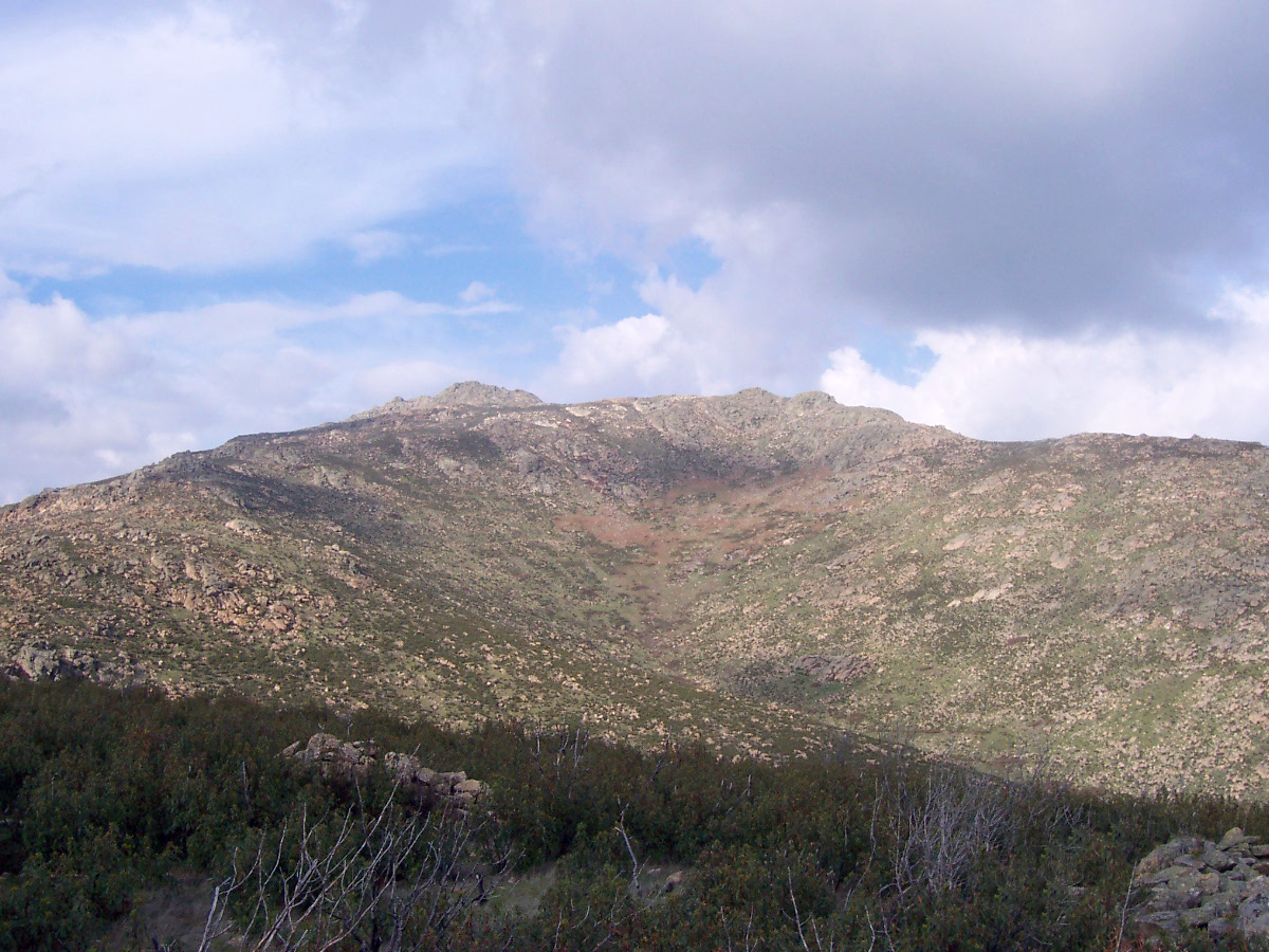 South side of El Pendón mountain, in Bustarviejo (Madrid)